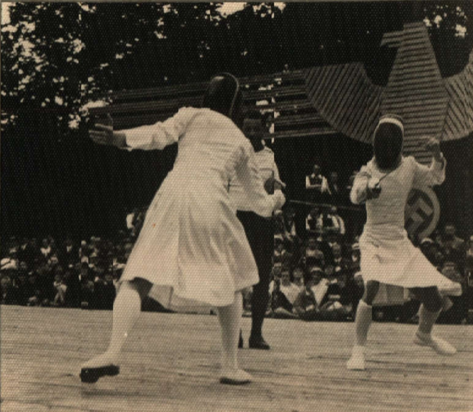 Views and photos from an international congress (cultural review of the nations in Hamburg, 1936).